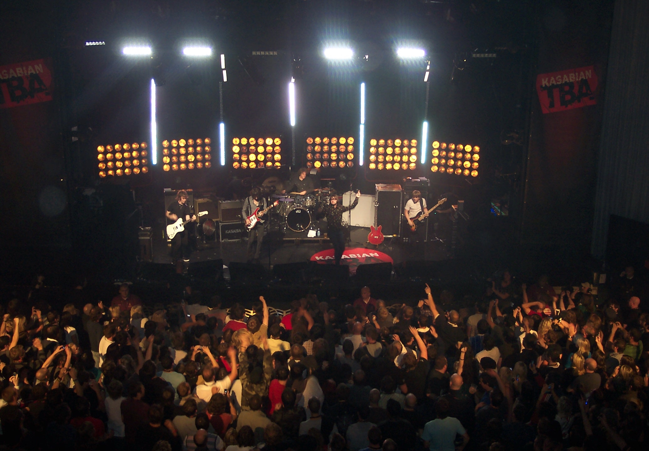 Local Leicester band and global superstars Kasabian headline concert at Athena